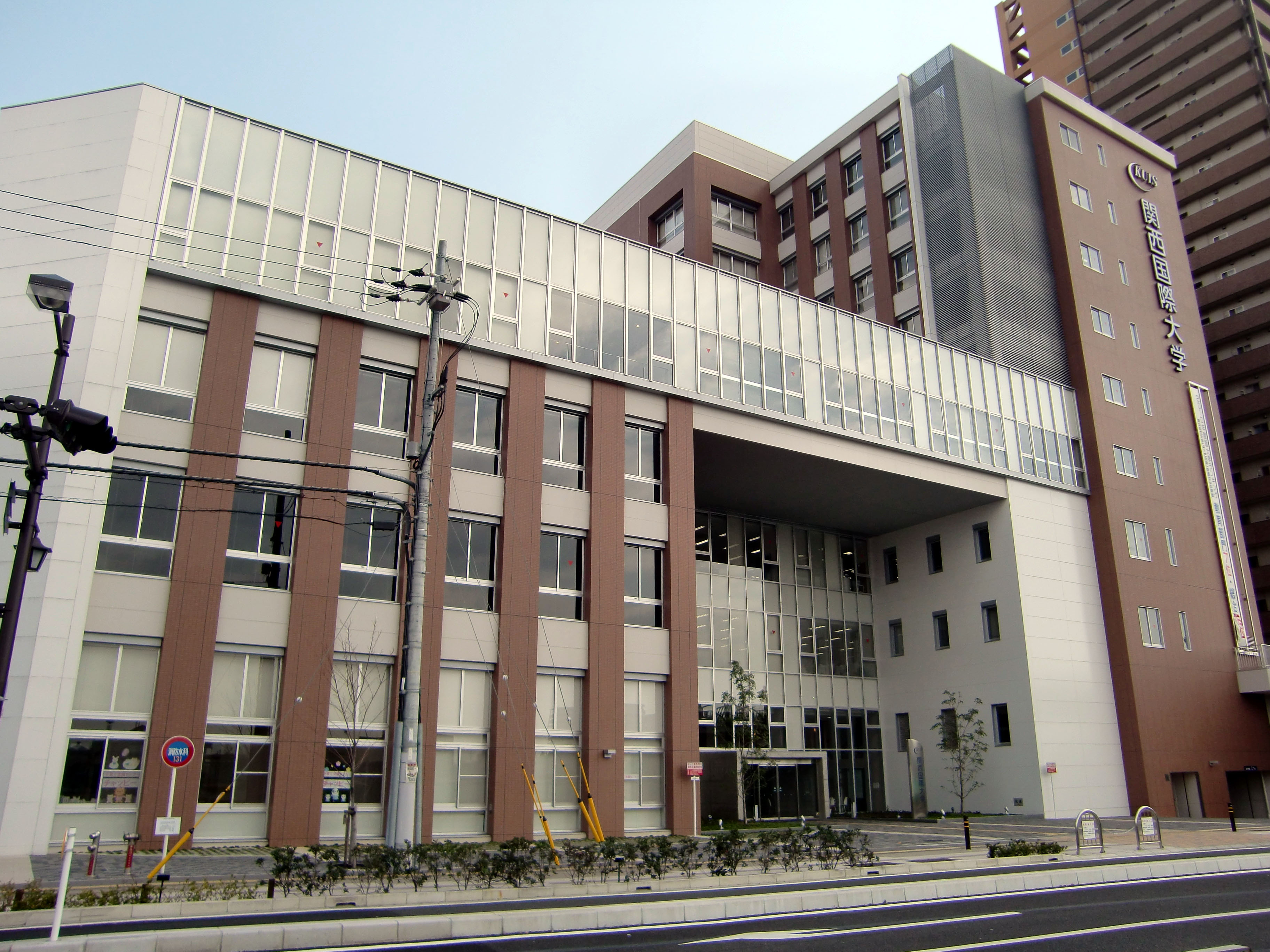 Kansai University of International Studies Amagasaki campus,1-3-23 Shioe Amagasaki-City Hyogo Japan.